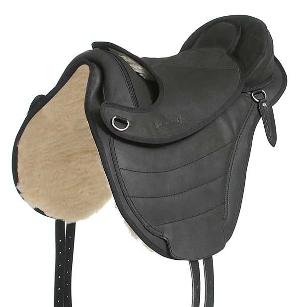 Barefoot saddle Cheyenne